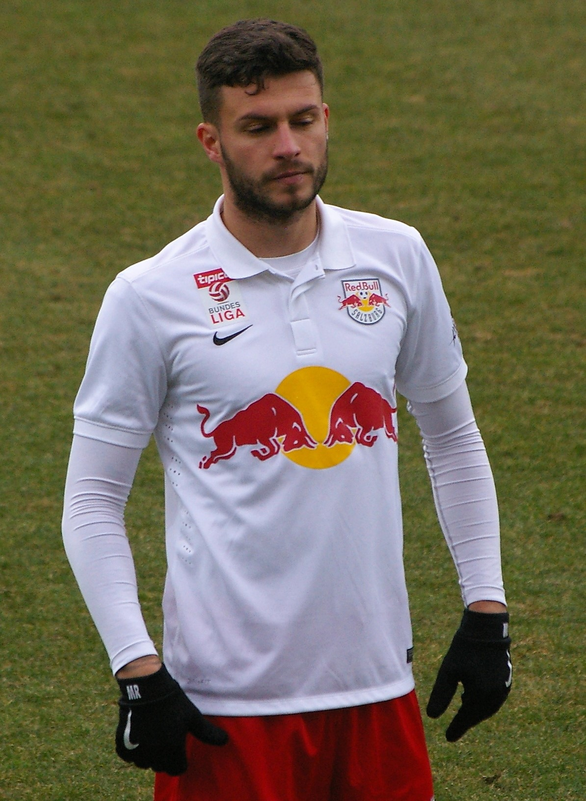 Austrian Bundesliga league match